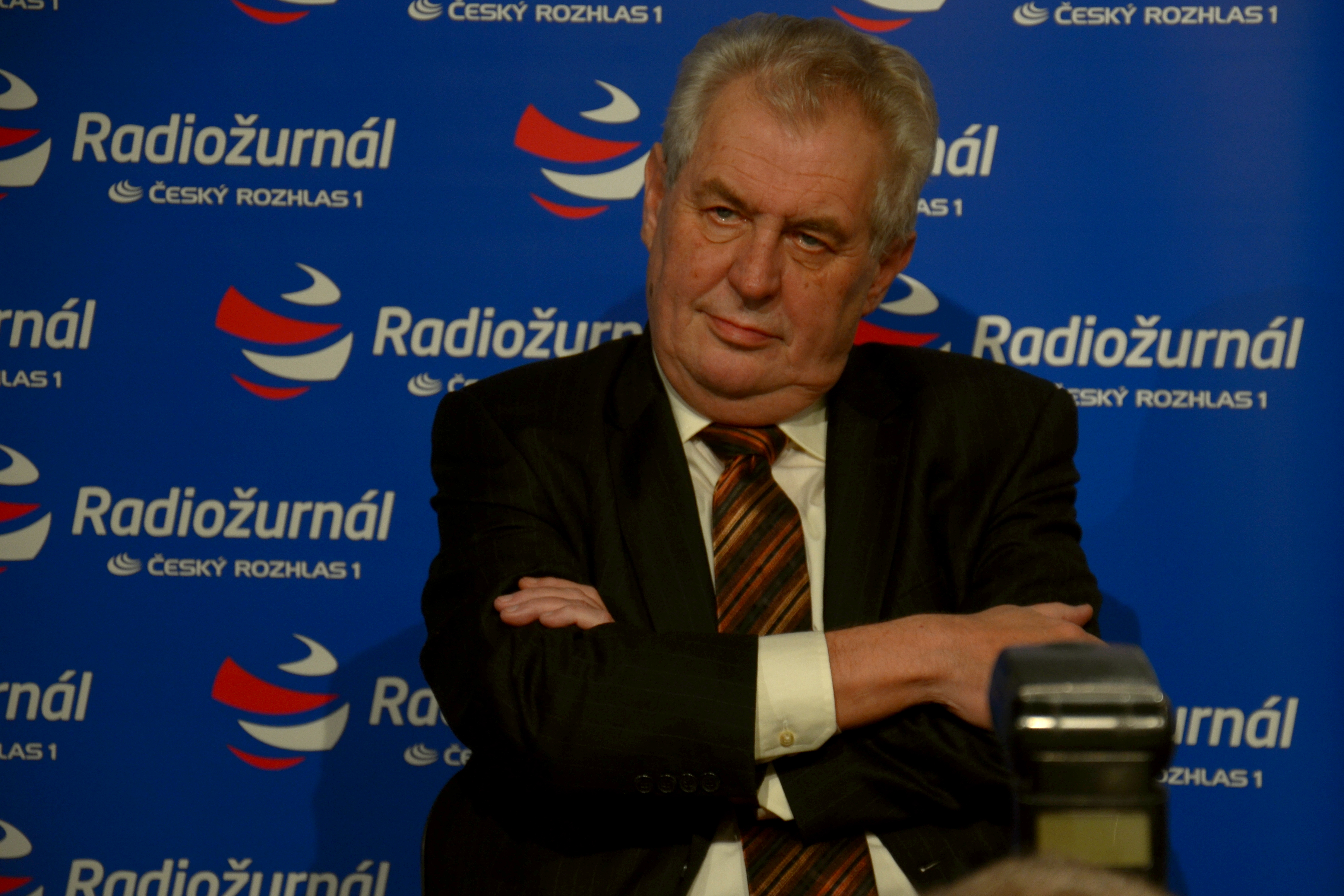 Miloš Zeman during a presidential election debate organized by Czech Radio.